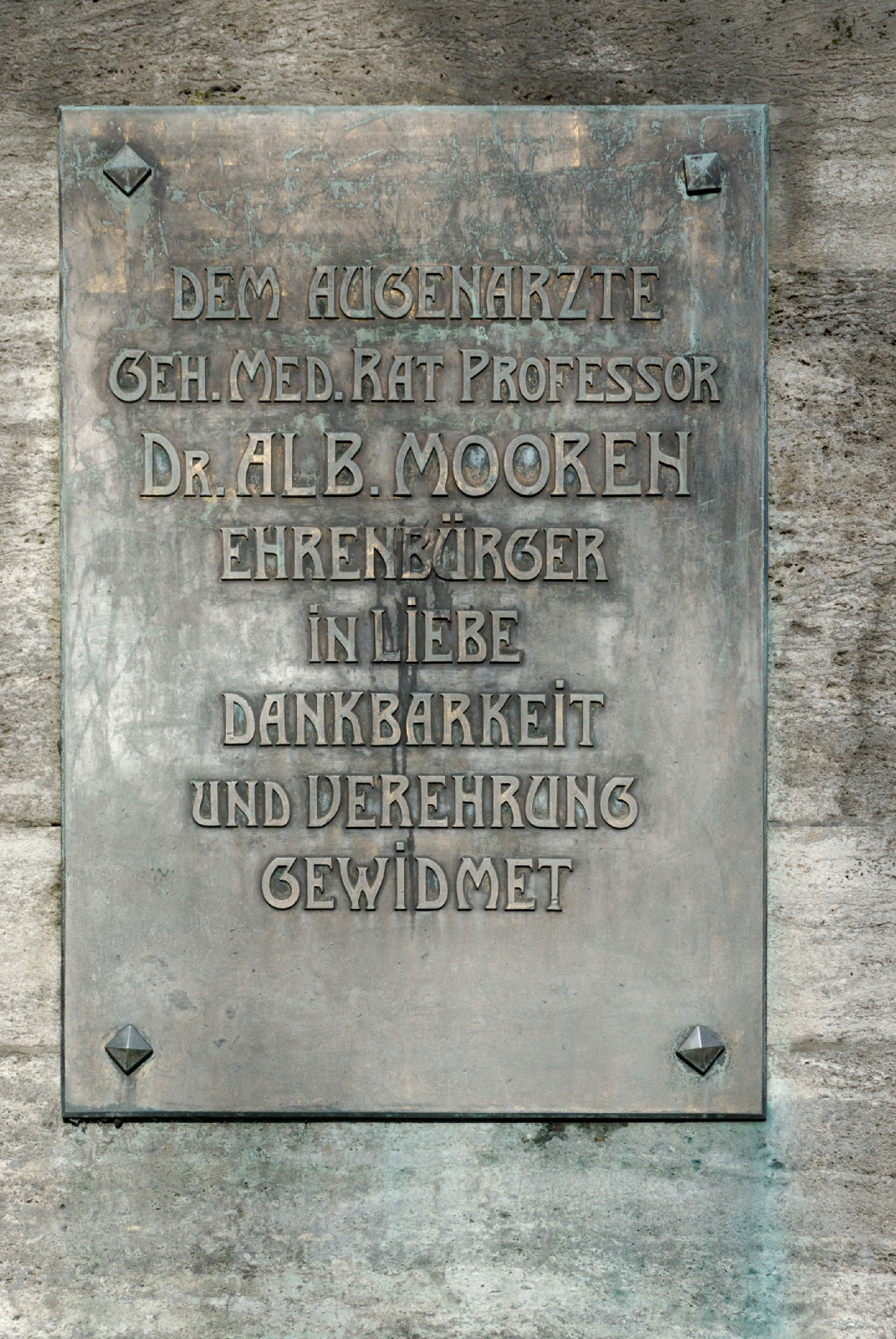 Board at the Albert Mooren fountain in Düsseldorf-Bilk, Germany